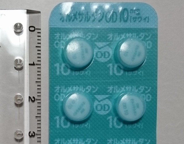 Olmesartan 10mg